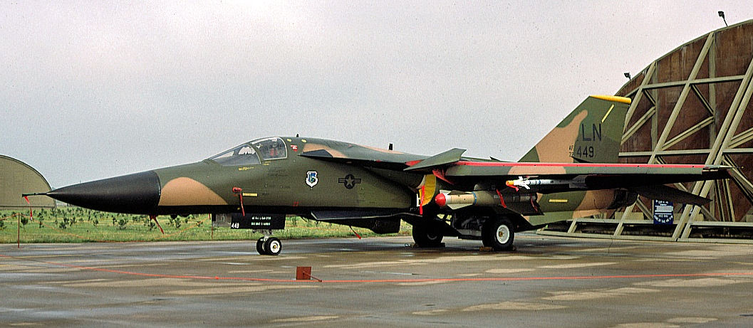 493d Tactical Fighter Squadron - General Dynamics F-111F - 72-449